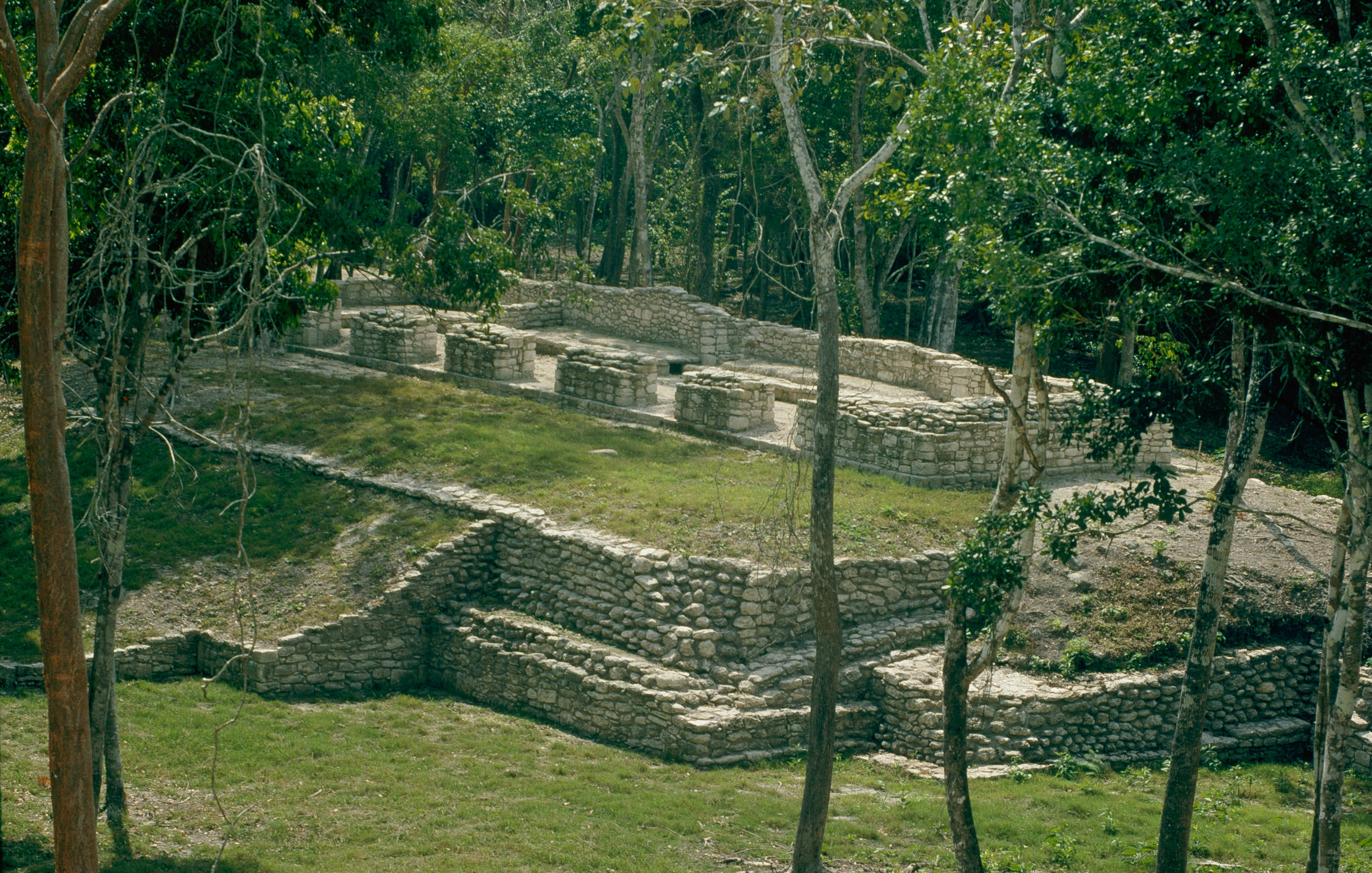 Dzibanche, Quintana Roo, Mexico: building XVI